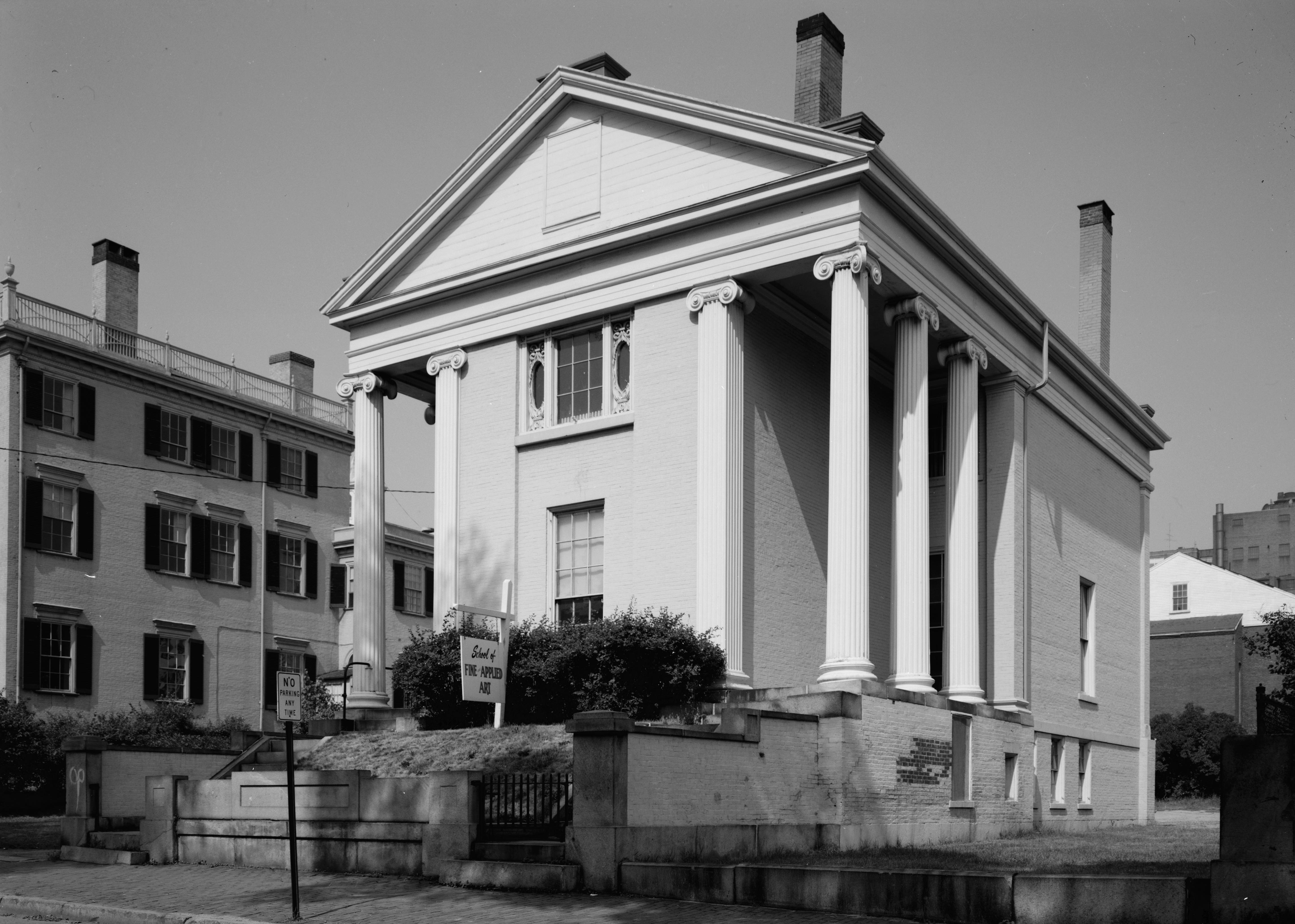 Front of the Charles Q. Clapp House, located at 97 Spring Street in Portland, Maine, United States. Built in 1832, it is listed on the National Register of Historic Places.